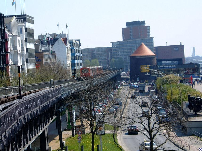 Hamburg U-Bahn (Metro), elevated railway (Hochbahn) at the Vorsetzen